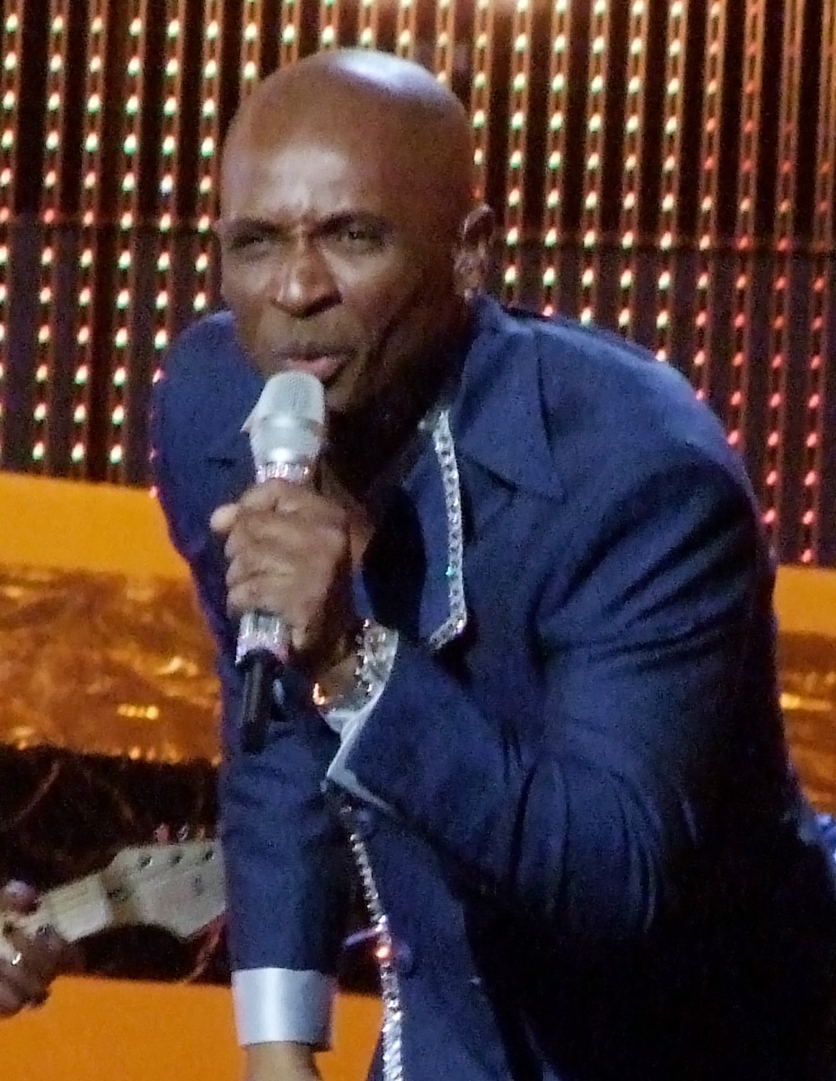 Andy Abraham (United Kingdom) at Eurovision Song Contest 2008 in Belgrade, Serbia, May 24, 2008.